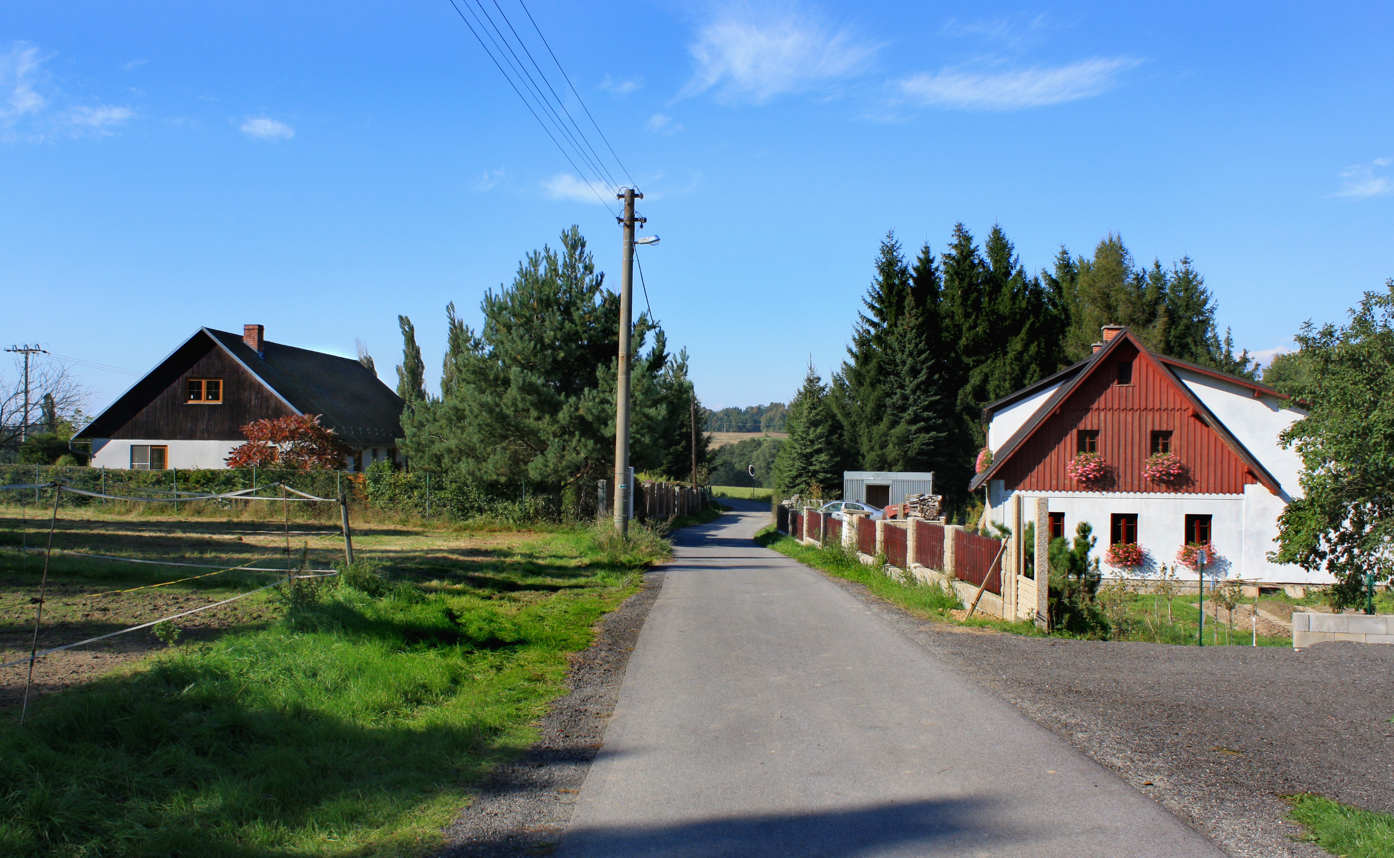 North part of Víska, part of Chrastava, Czech Republic